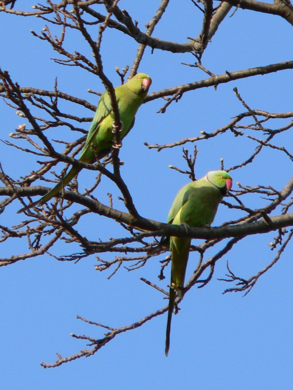 Rose-ringed Parakeets perching in a tree in Kew Gardens, London.